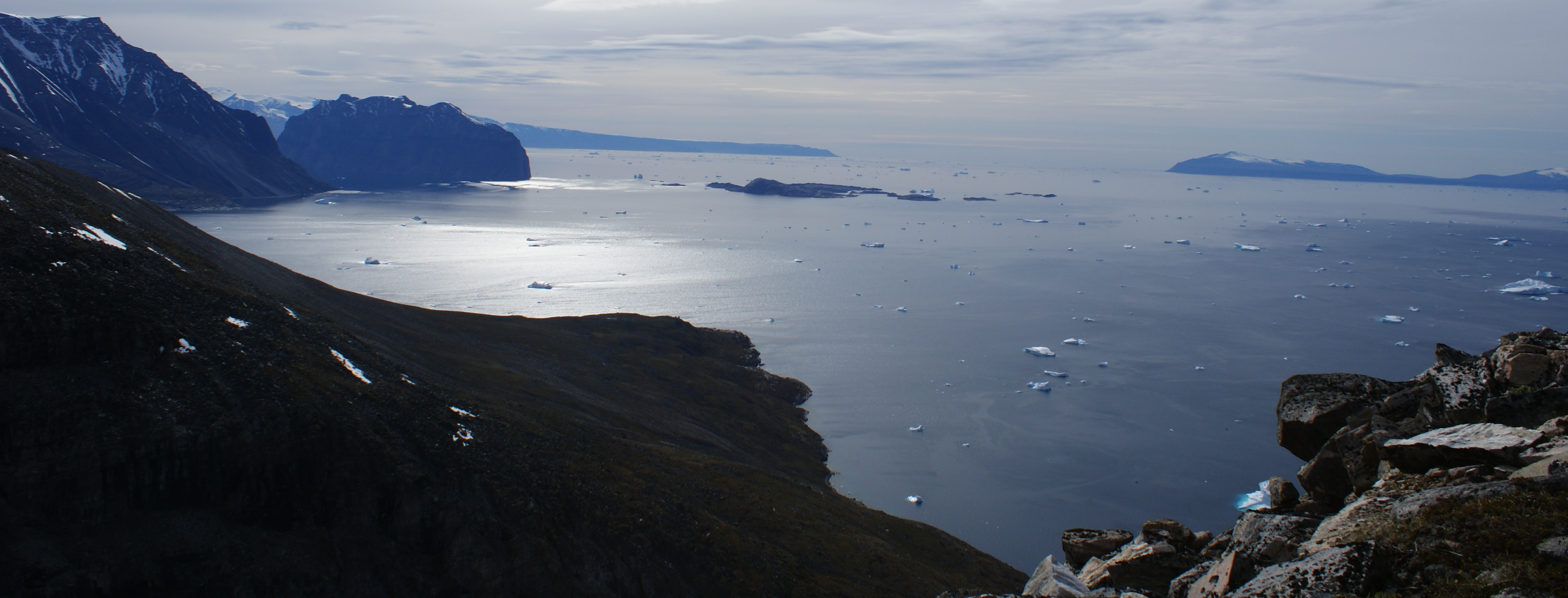 Northeastern Uummannaq Fjord from a summit on Ukkusissat Peninsula: Appat Island, Salleq Island, and Qeqertat skerry on the first plane; Nuussuaq Peninsula and Illorsuit Island on the last plane.